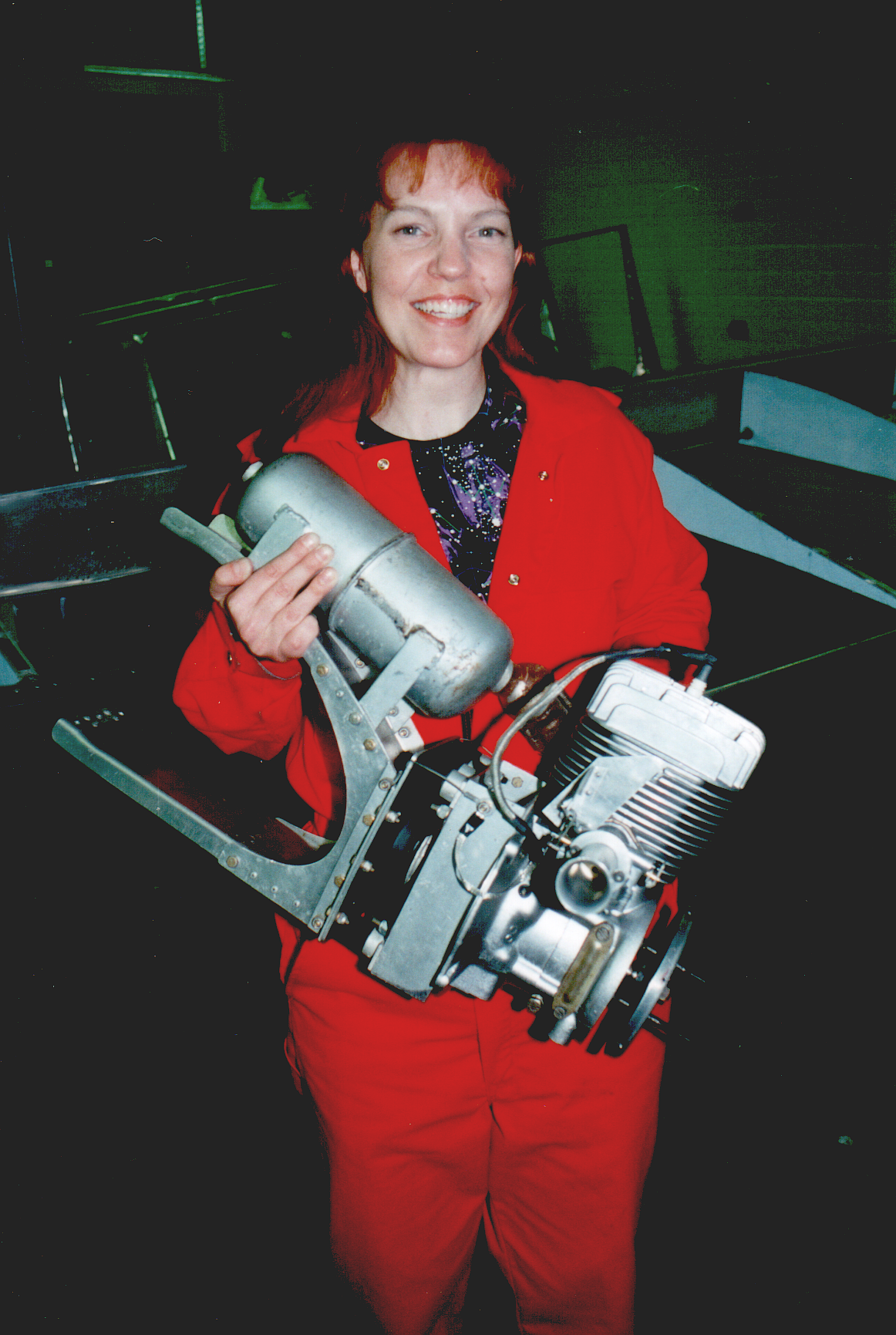 A Rotax 185 engine with muffler and mount for a Lazair. The engine assembly is light weight as evidenced by the ease with which it is carried by a small woman.